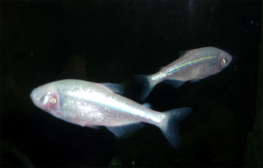 Astyanax mexicanus